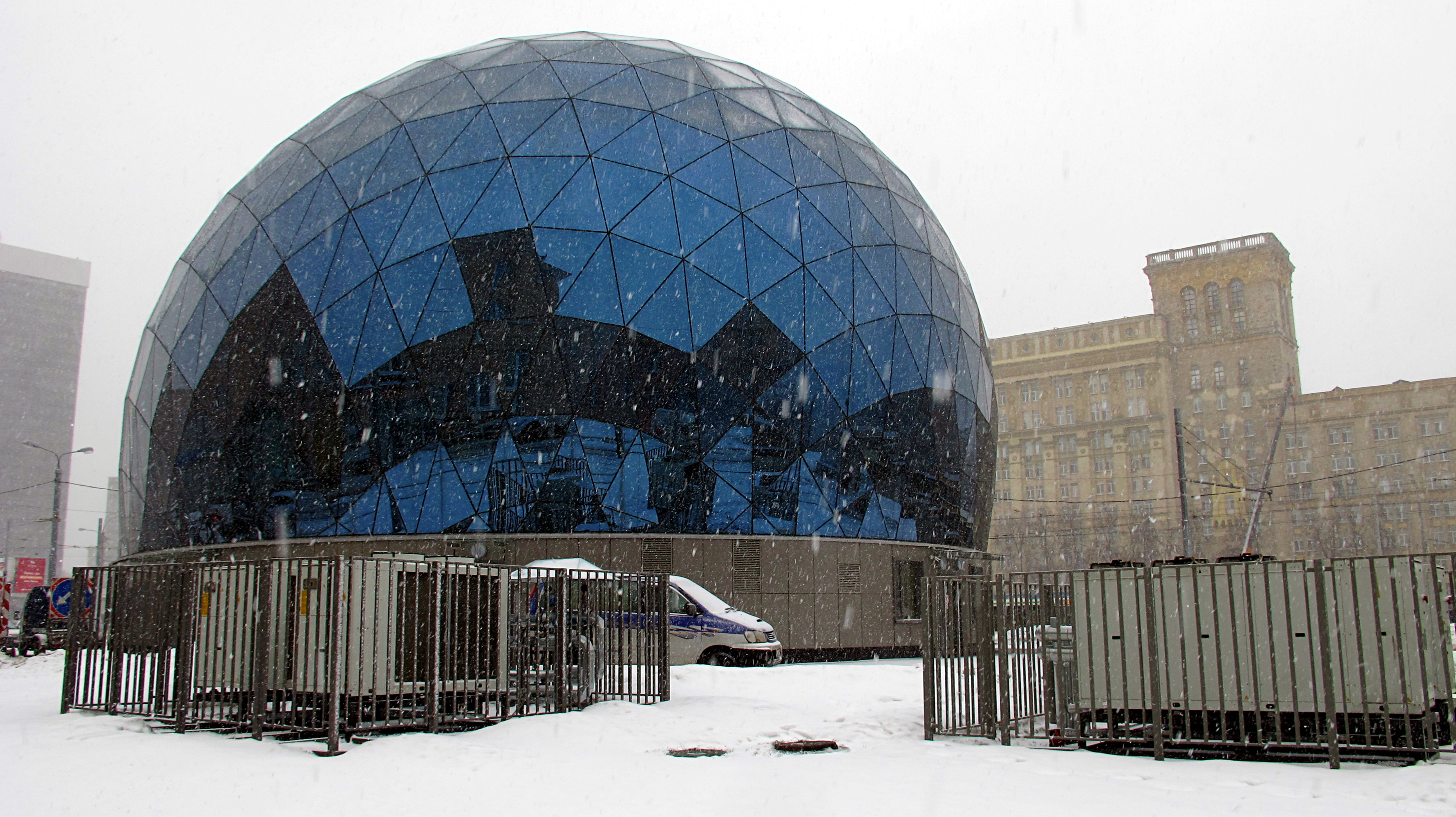 Wikitrip to MAI museum 2016-02-02